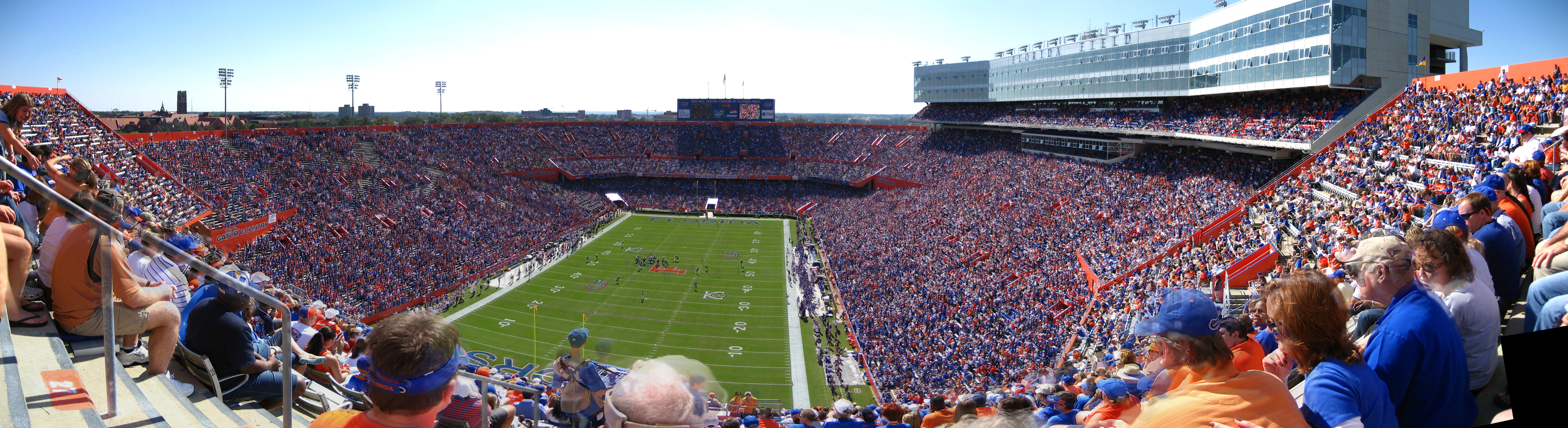 Ben Hill Griffin Stadium at Florida Field, at the University of Florida in Gainesville. The opponent was the Vanderbilt Commodores - the Gators won, 49-22.